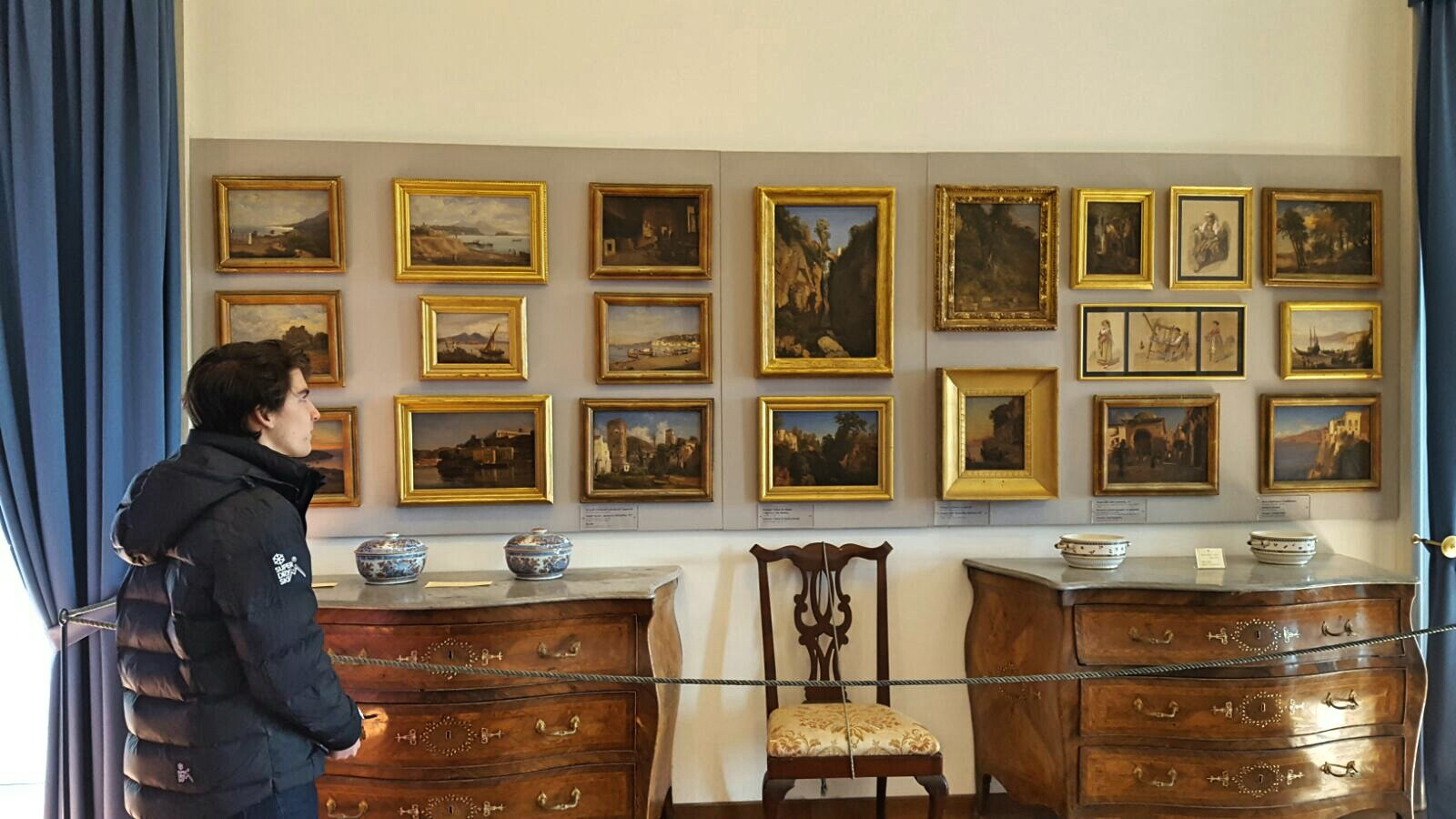 A young person admiring Duclere's masterpieces in exhibition at museo Correale, Sorrento